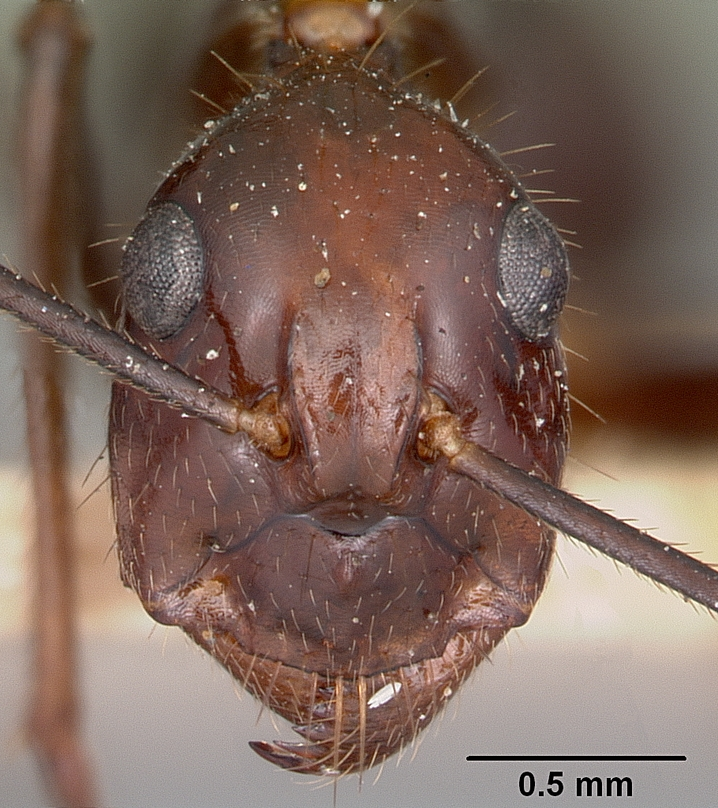 Head view of ant Camponotus imitator specimen casent0104647.